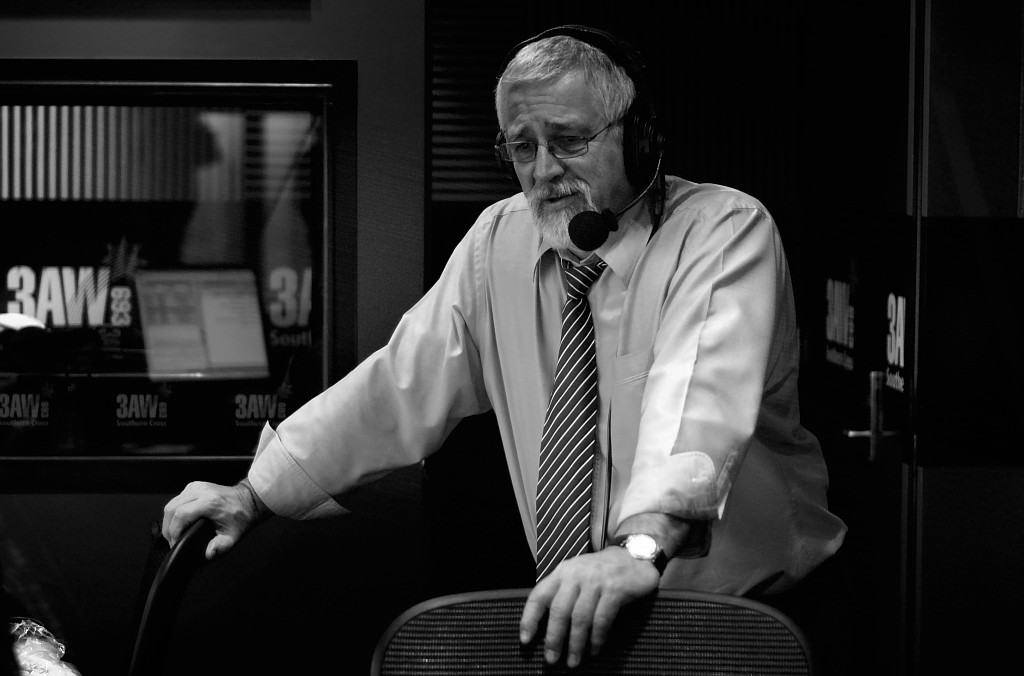 Neil Mitchell, Australian radio announcer